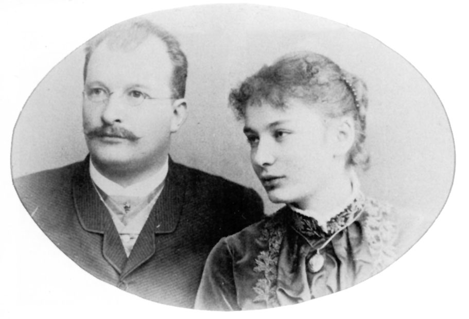 Richard Plöhn and Klara Plöhn 1881